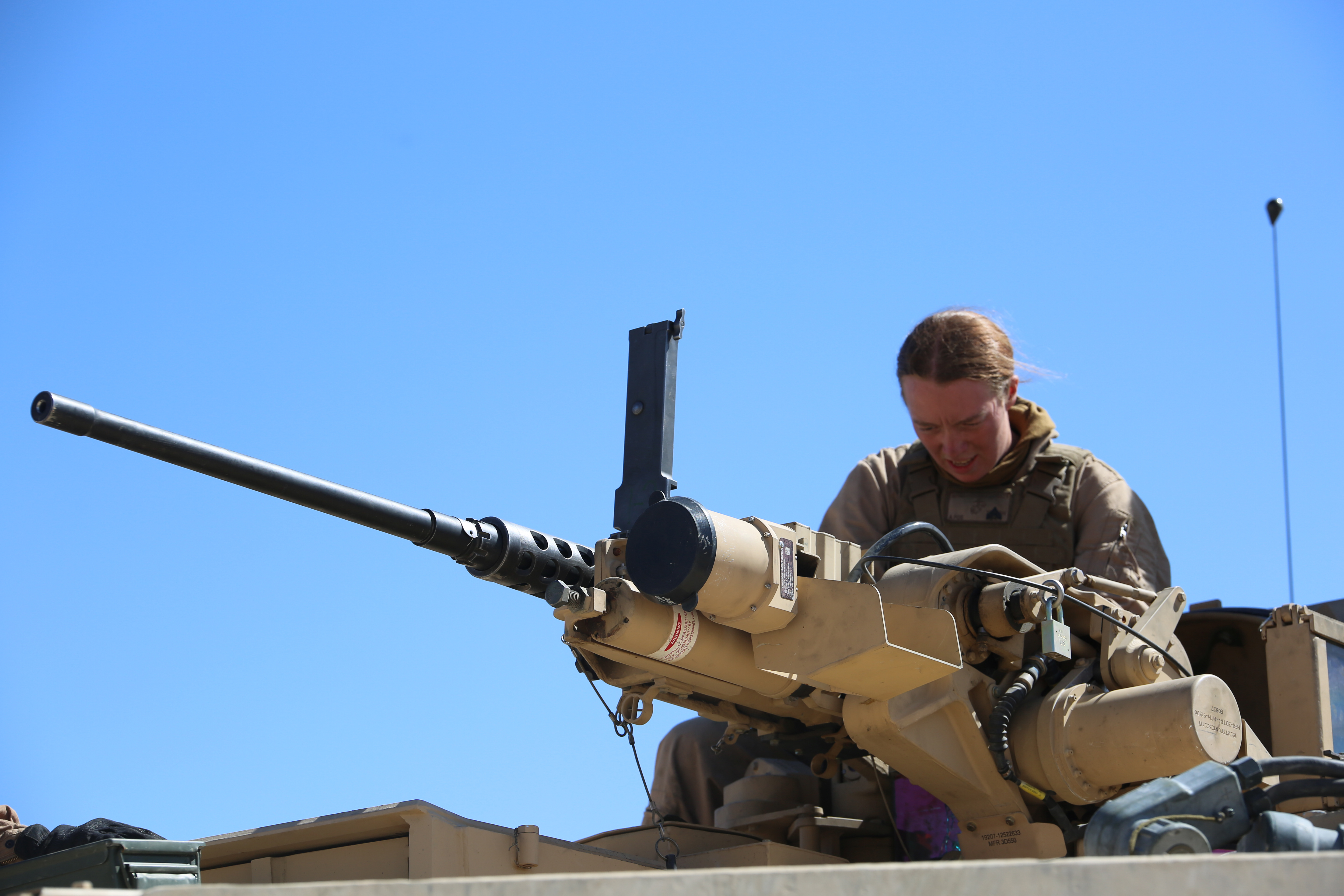 Cpl. Kimberly Behmlander, driver, Tank Platoon, Company B, Ground Combat Element Integrated Task Force, loads a .50 caliber machine gun atop an M1A1 Abrams tank during a Marine Corps Operational Test and Evaluation Activity assessment at Range 500, Marine Corps Air Ground Combat Center Twentynine Palms, California, March 7, 2015. From October 2014 to July 2015, the GCEITF will conduct individual and collective level skills training in designated ground combat arms occupational specialties in order to facilitate the standards-based assessment of the physical performance of Marines in a simulated operating environment performing specific ground combat arms tasks. (U.S. Marine Corps photo by Cpl. Paul S. Martinez/Released)